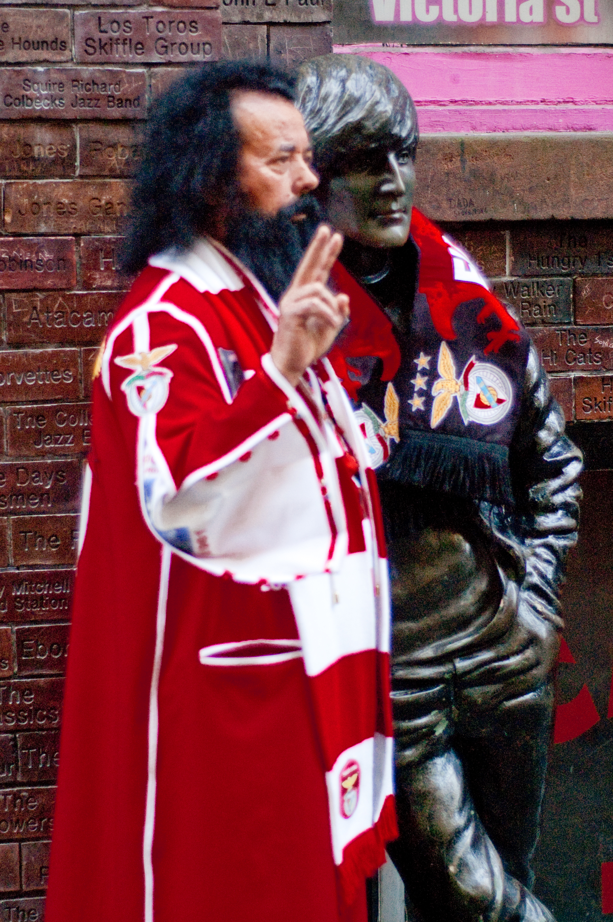 A colourful Benfica fan, António "Barbas" Ramos poses with the John Lennon statue in Mathew Street, prior to the second leg tie with Liverpool.